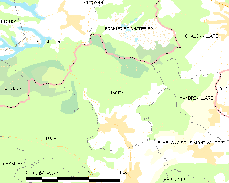 Map of French municipality